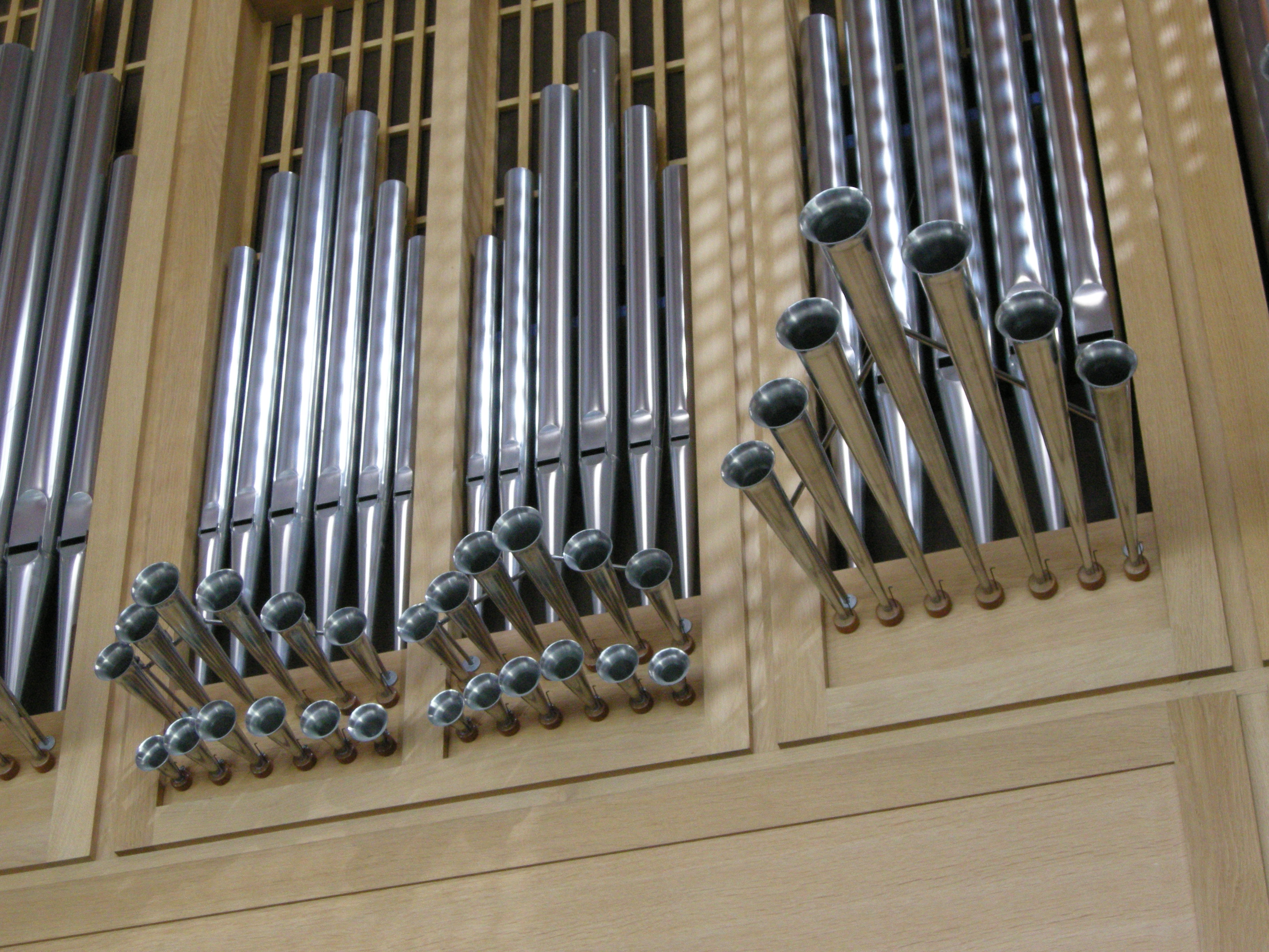 Brigham Young University Jerusalem Center